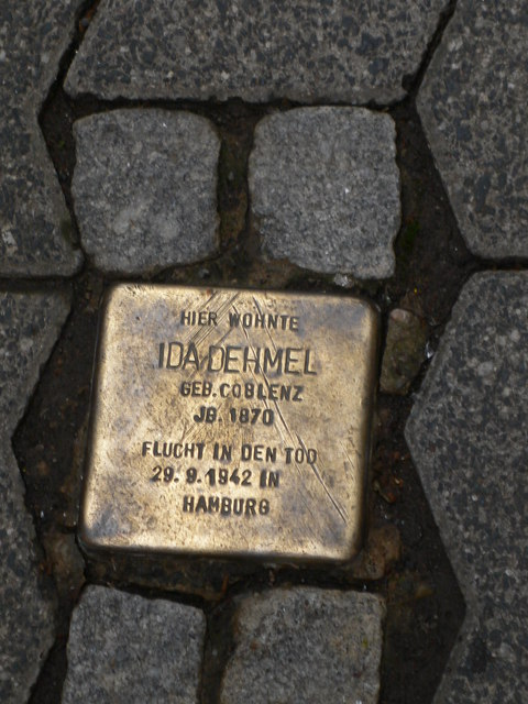 Memorial plaques for Ida Dehmel Ida Dehmel was born into a wealthy Bingen Jewish family. Together with her second husband, Richard Dehmel, her house became a centre for poets and artists and she took a great interest in feminist issues. Though she travelled to the West Indies and America in 1937, she was loath to leave the Richard Dehmel house after the outbreak of World War II. In a letter Ida recorded the details of the rounding up and deportations of Hamburg’s Jews - her fear of the same fate led her to commit suicide by an overdose of sleeping tablets on September 29, 1942.